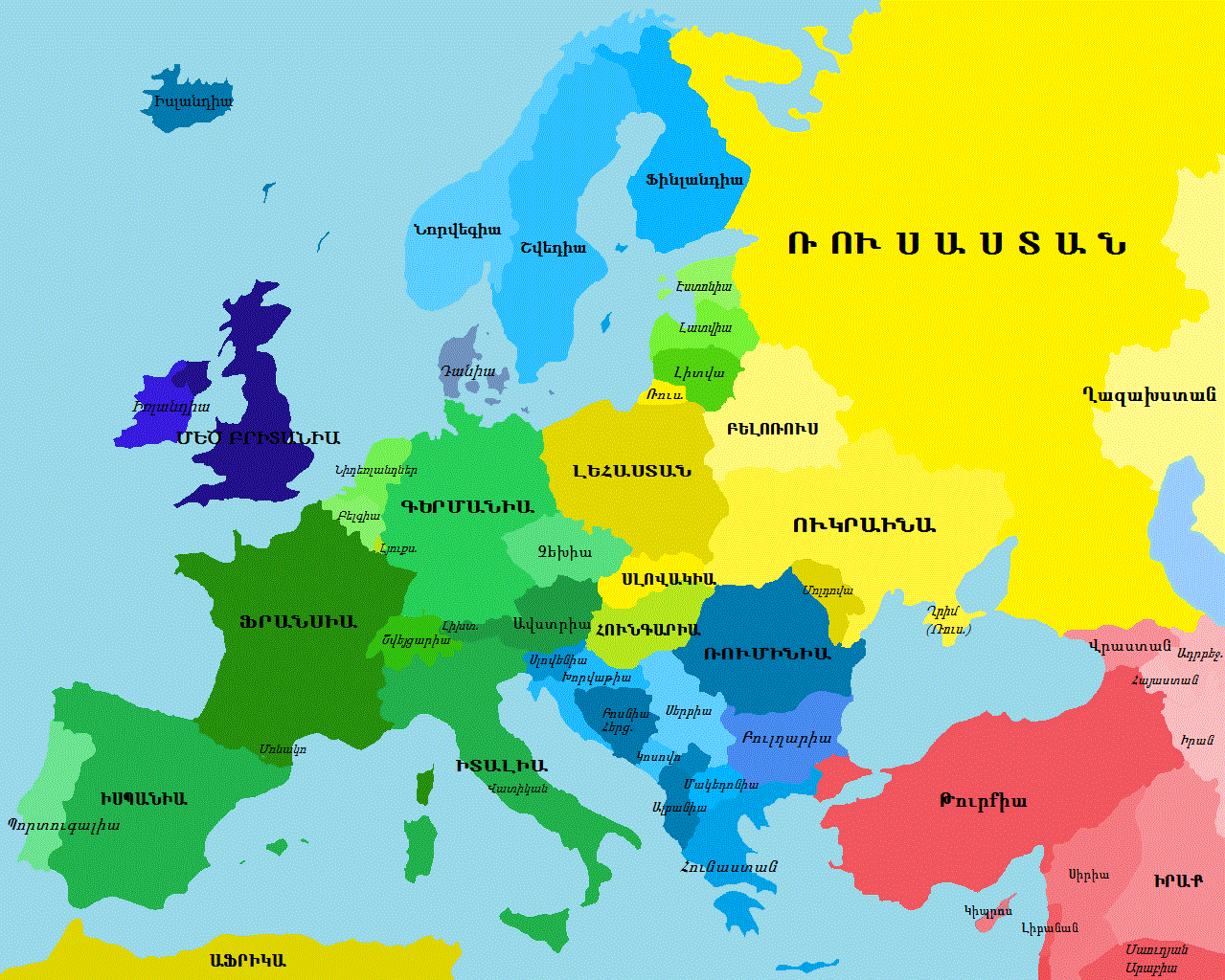 European countries map